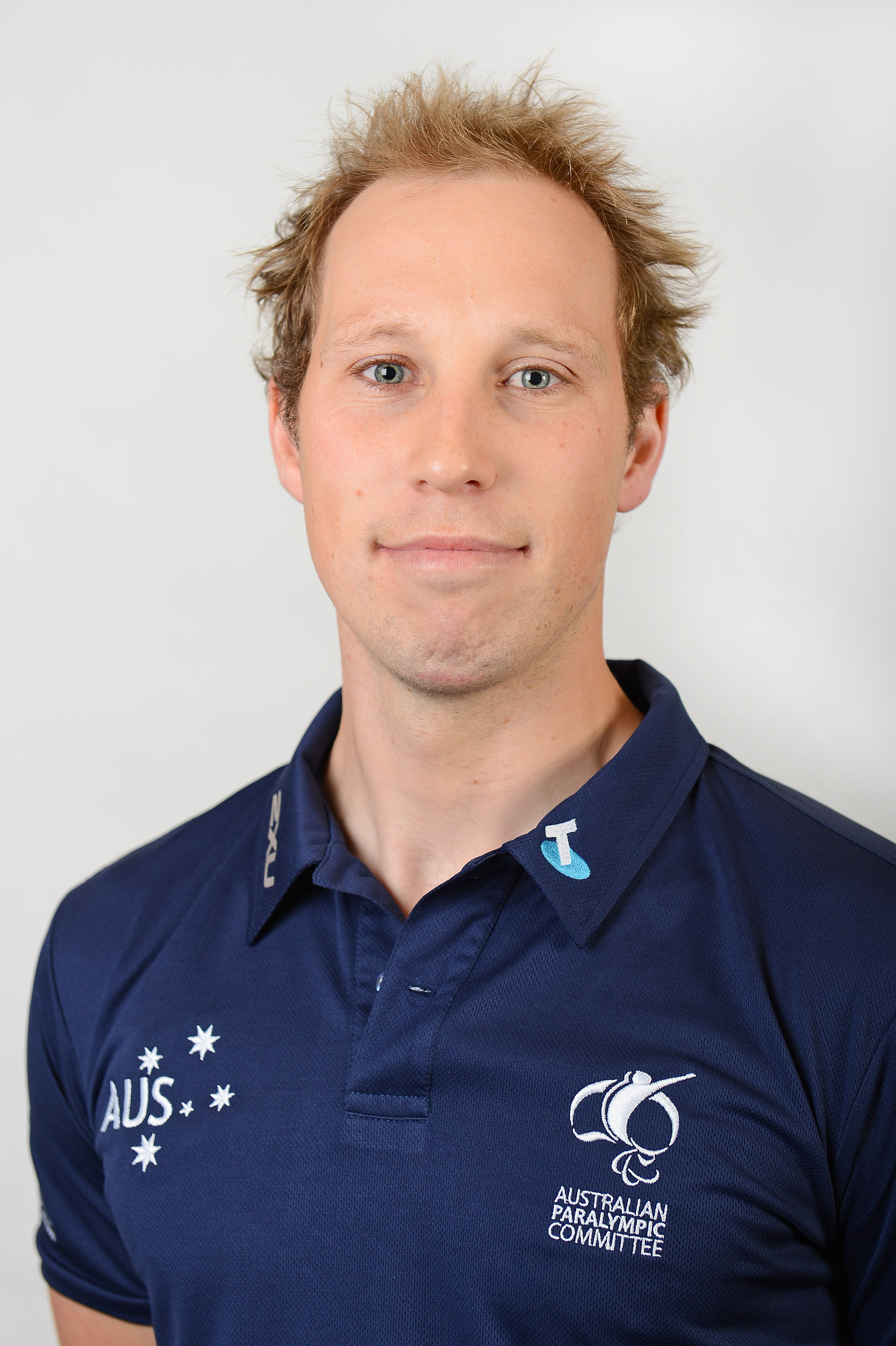 Portrait of Australian Skier Cameron Rahles-Rahbula, 2014 Australian Paralympic Team Athlete